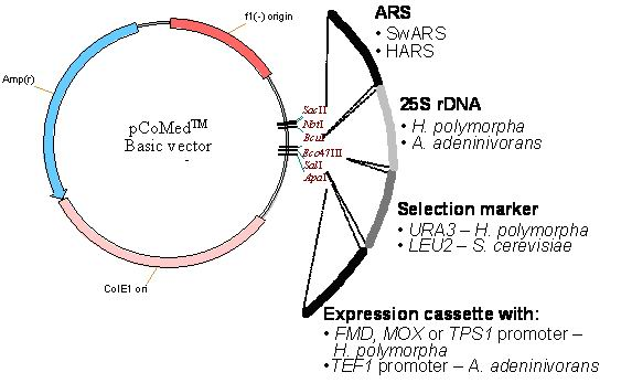 Design and functionality of CoMed vector system. The CoMed basic vector contains all E. coli elements for propagation in the E. coli system and a MCS for integration of ARS, rDNA, selection marker and expression cassette modules. For this purpose, ARS fragments are flanked by SacII and BcuI restriction sites, rDNA regions by BcuI and Eco47III restriction sites, selection markers by Eco47III and SalI restriction sites and promoter elements by SalI and ApaI restriction sites. Licensing Removed from the following pages: Arxula adeninivorans Yeast expression platforms --OrphanBot 08:03, 7 August 2007 (UTC) Removed from the following pages: Arxula adeninivorans Yeast expression platforms --OrphanBot 06:58, 9 August 2007 (UTC)